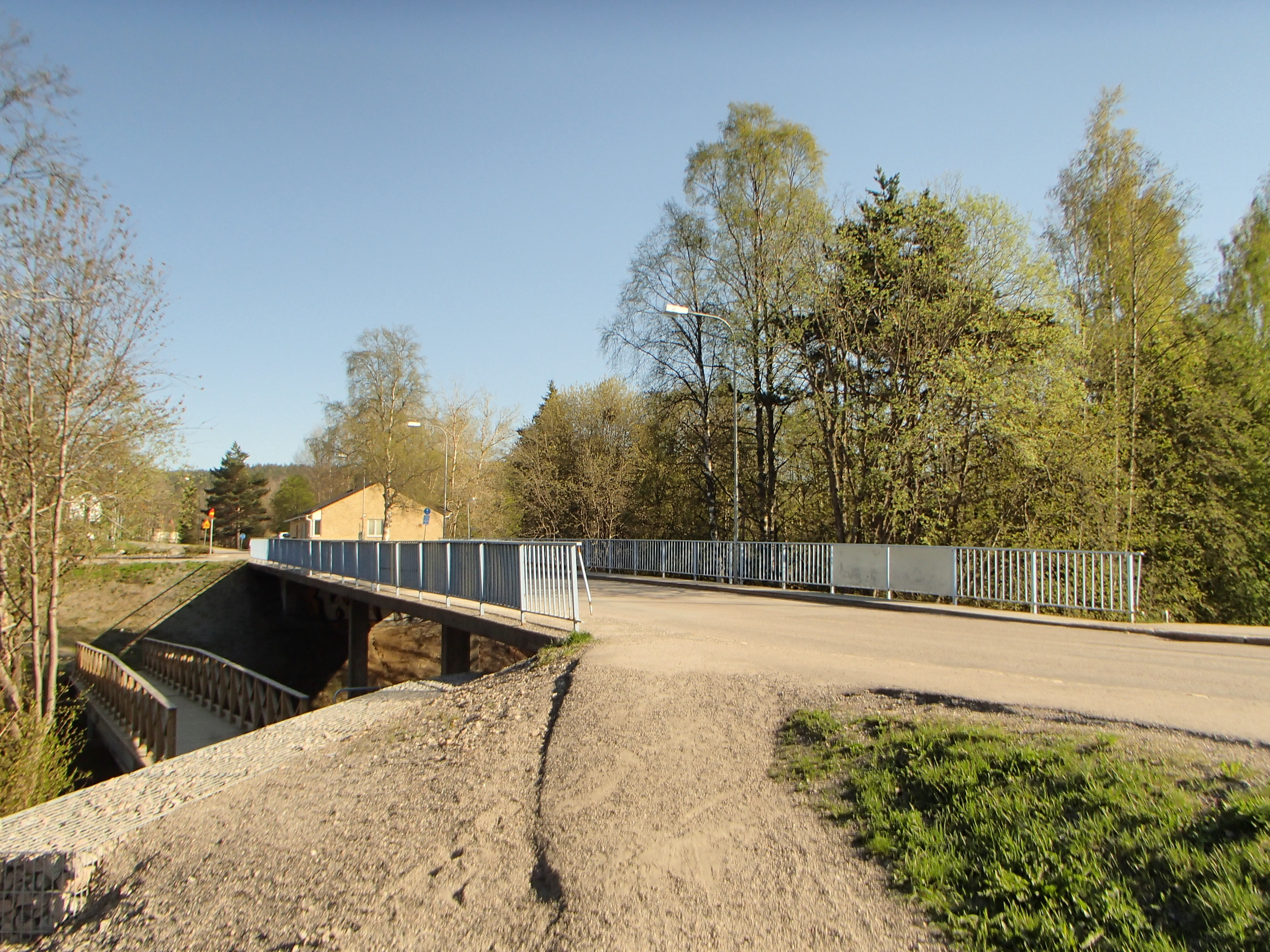 Sidsjöbron, a bridge across Sidsjöbäcken brook in Sundsvall, Sweden, viewed from north